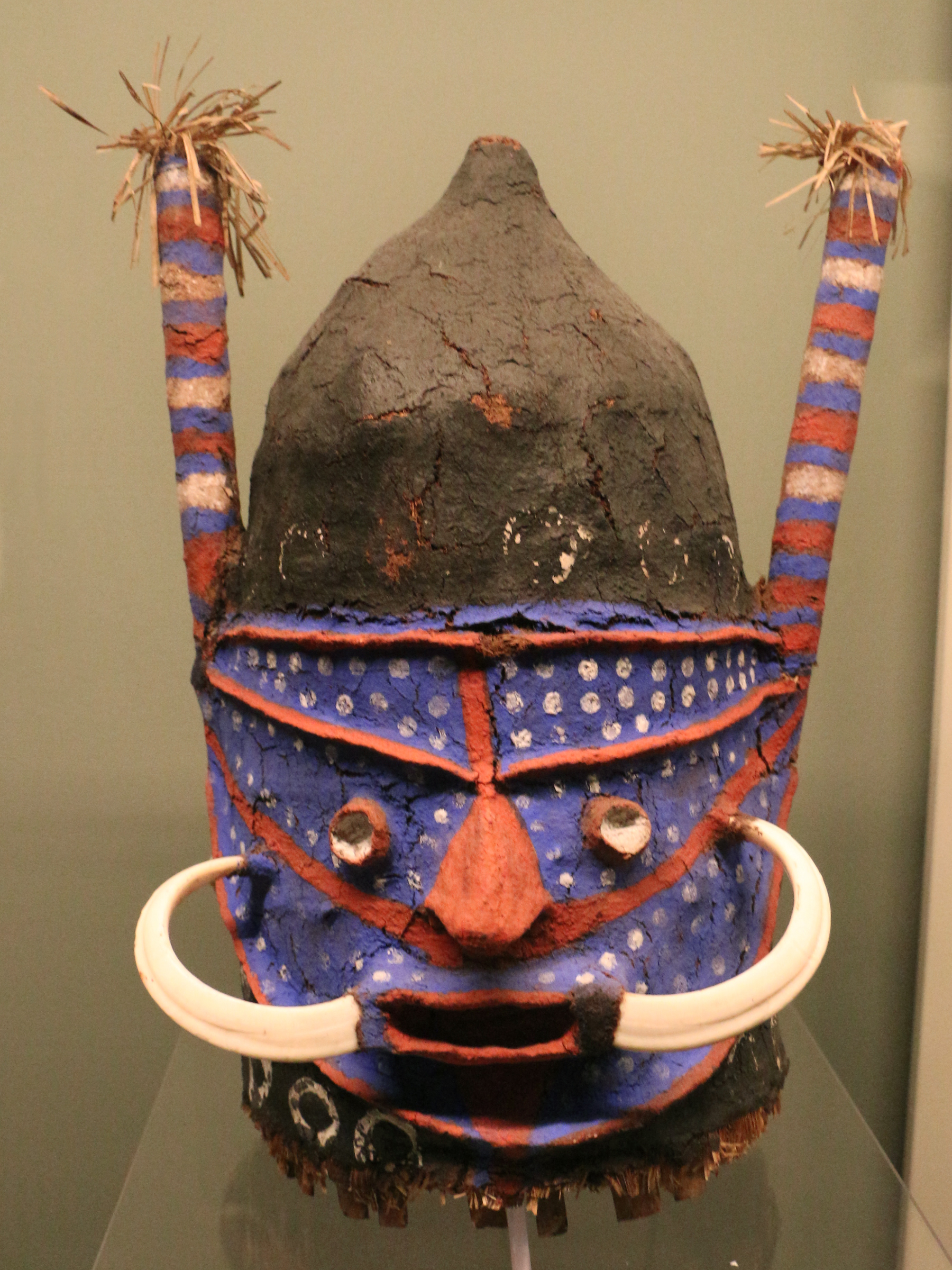 Oceanic art in the Field Museum of Natural History